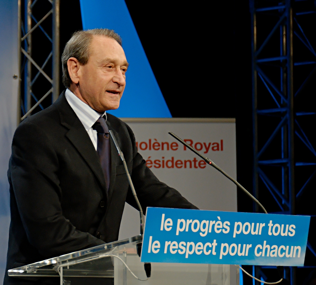 Bertrand Delanoë speaking at a meeting held on Feb. 6, 2007 by the French Socialist Party at the Carpentier Hall in Paris.